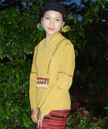 Shan woman from Laikha, Northern Shanstate, ShanUnion.